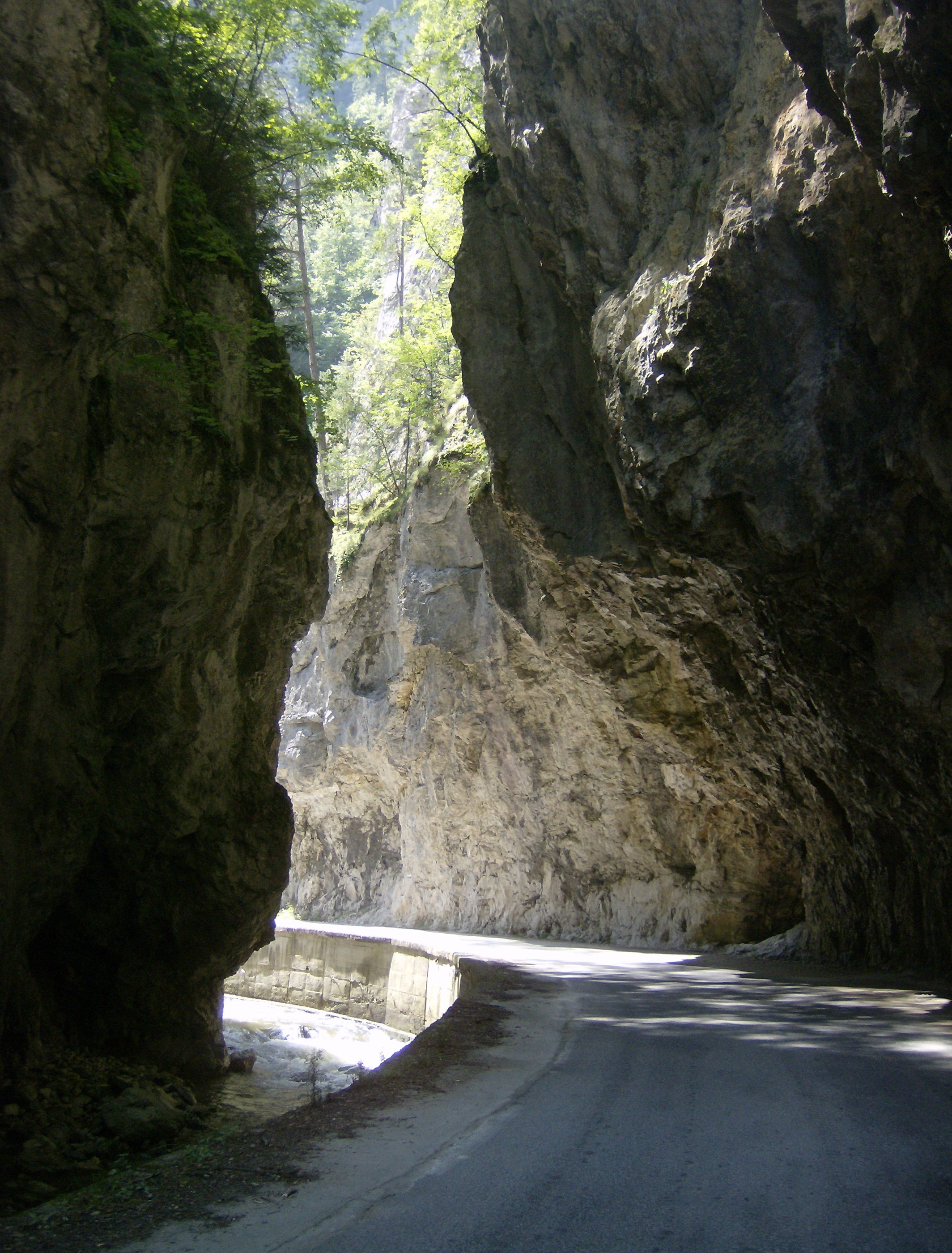 Buynovsko Gorge